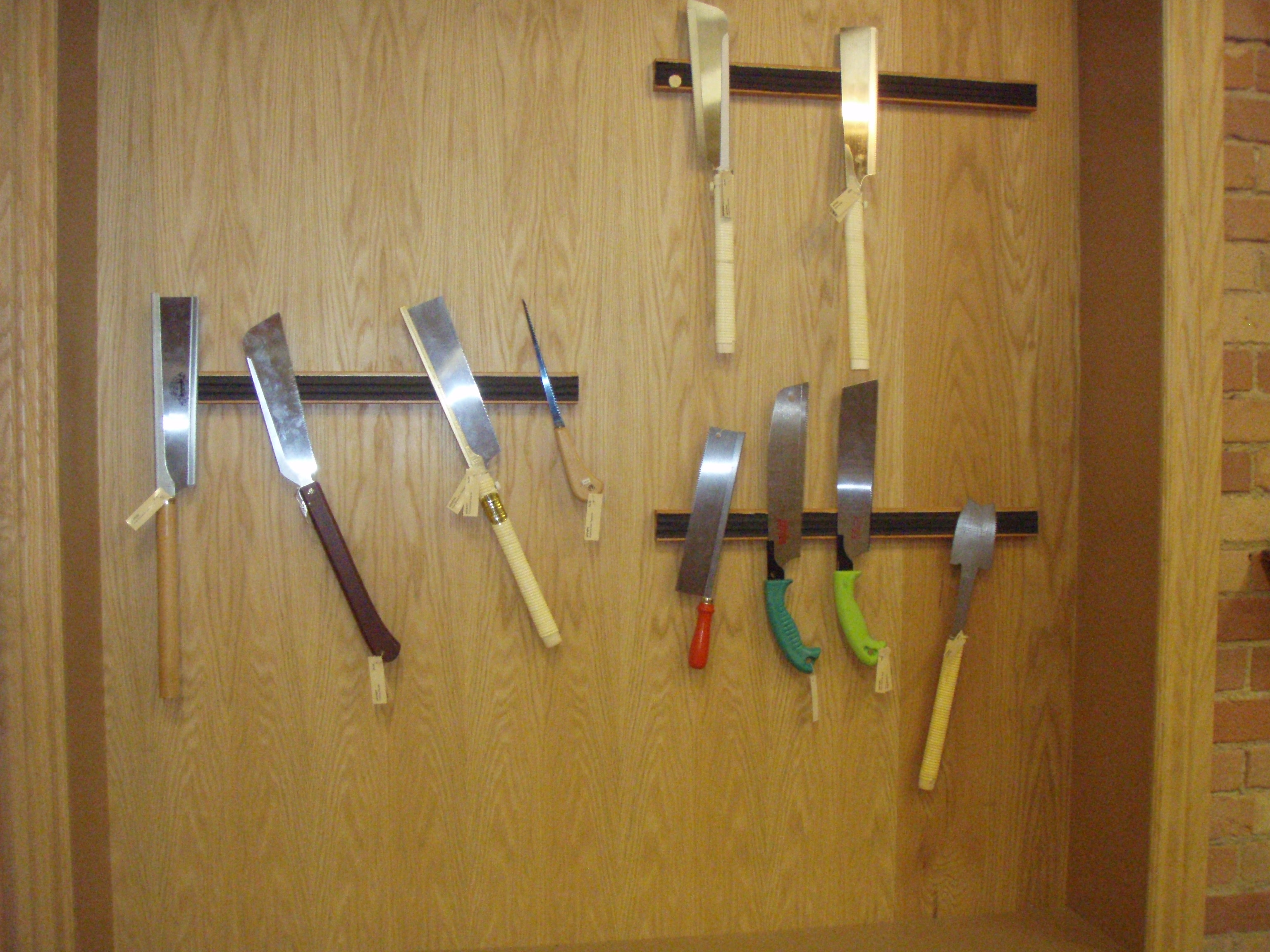 Axes and Woodcutting tools, Lee Valley